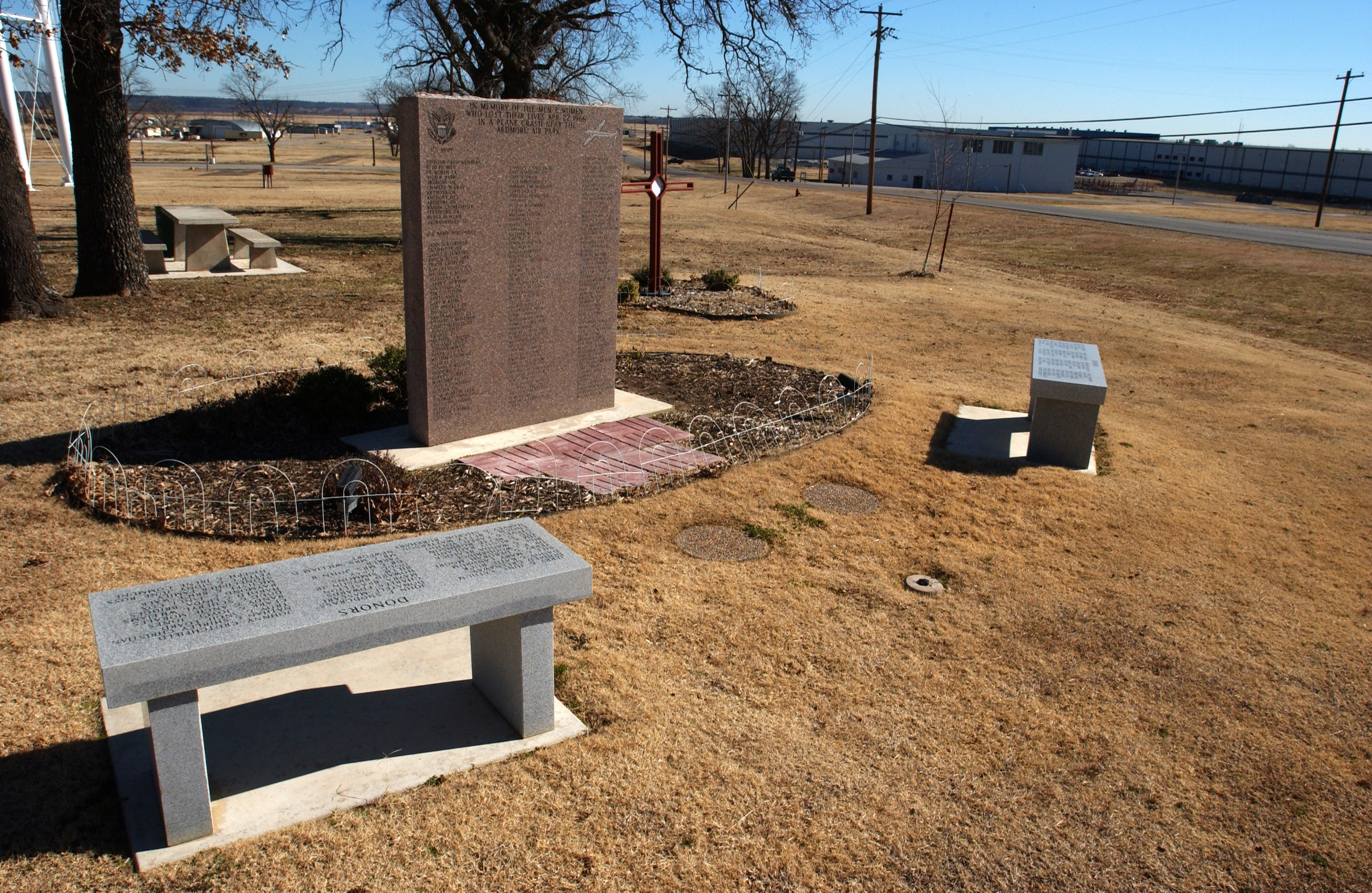 American Flyers Memorial Park